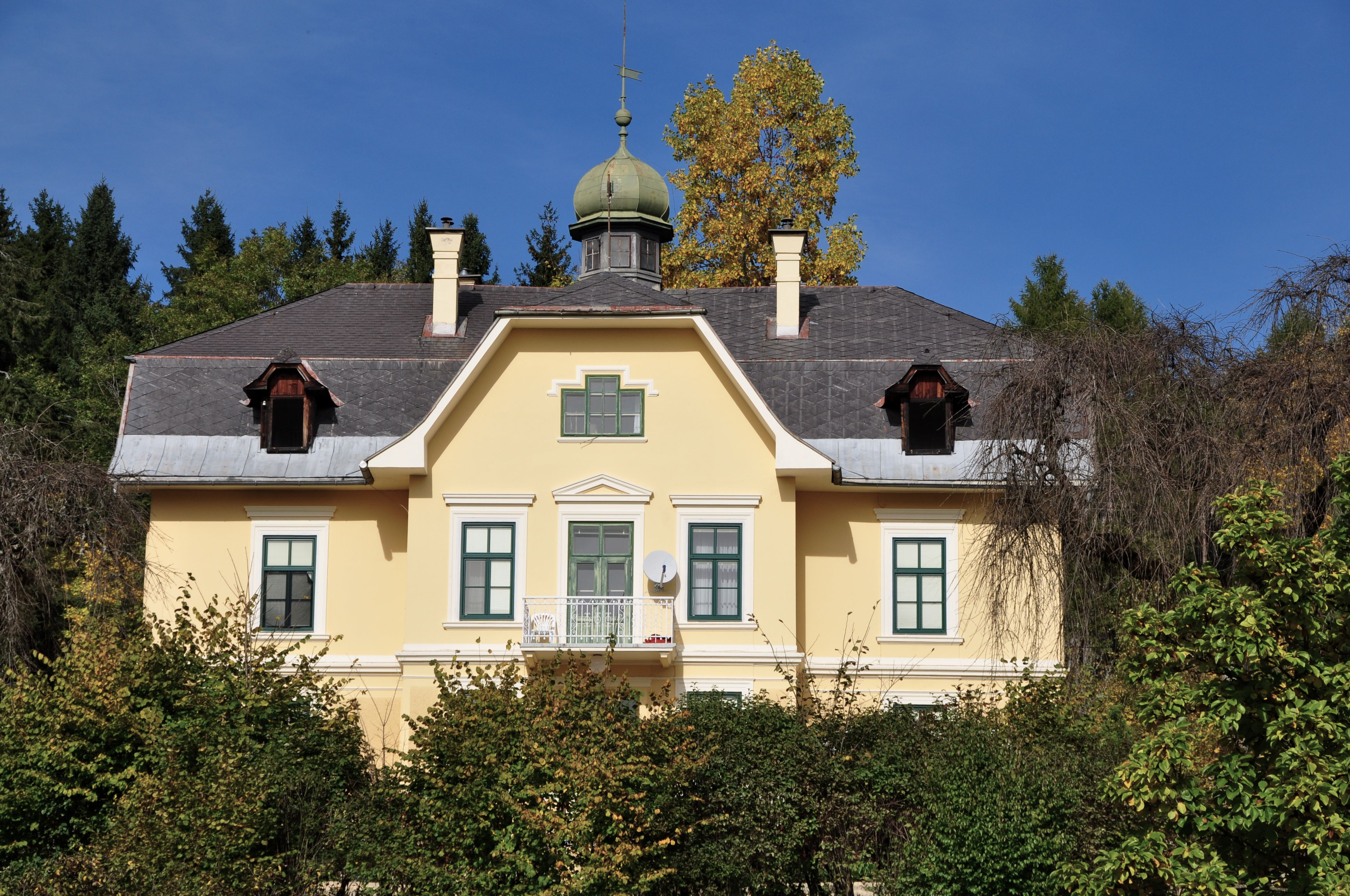 Subsidiary building of castle Welsbach at Welsbach #1, municipality Mölbling, district St. Veit an der Glan, Carinthia / Austria / EU